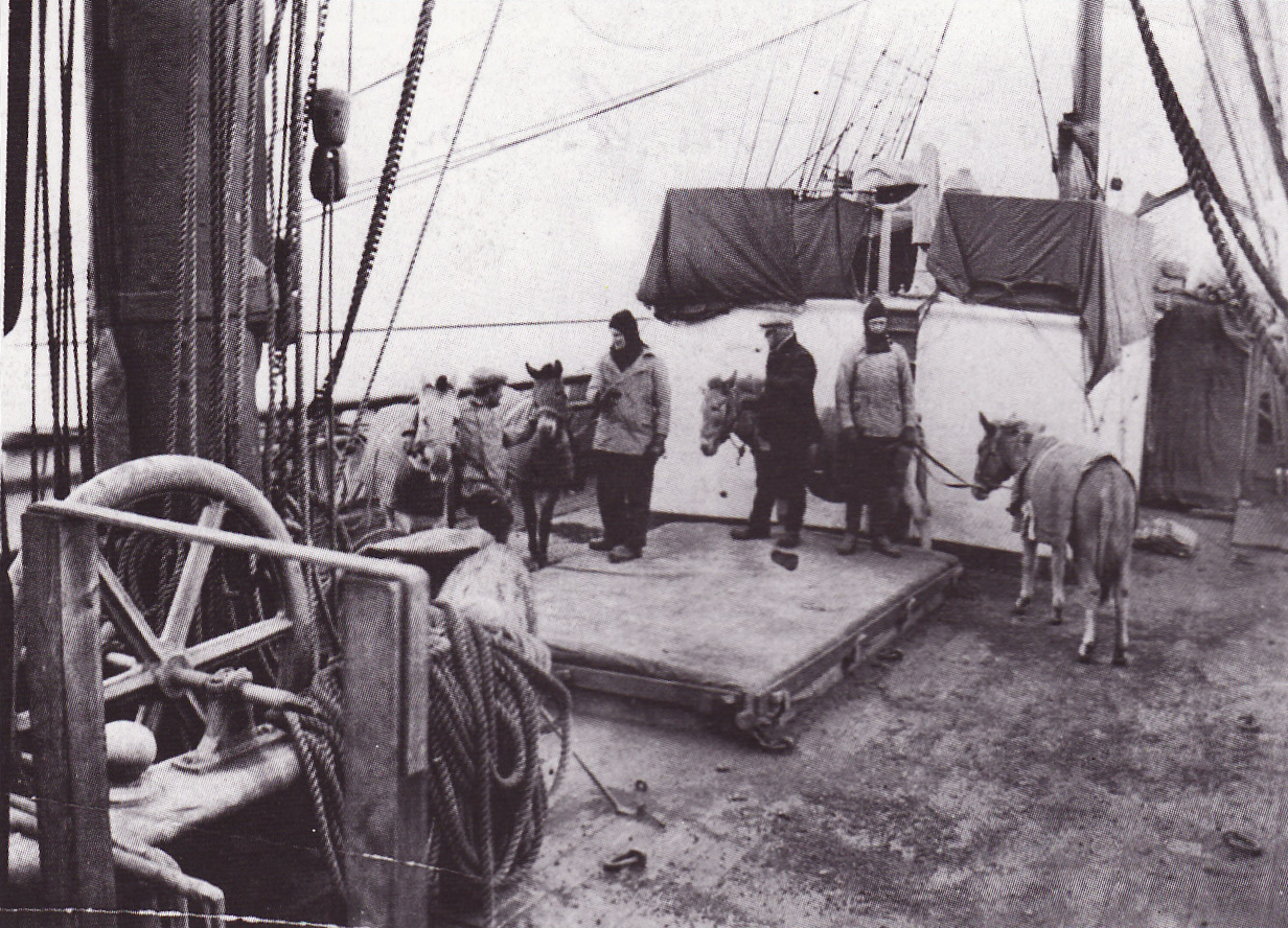 The Siberian ponies on board the ship Terra Nova.